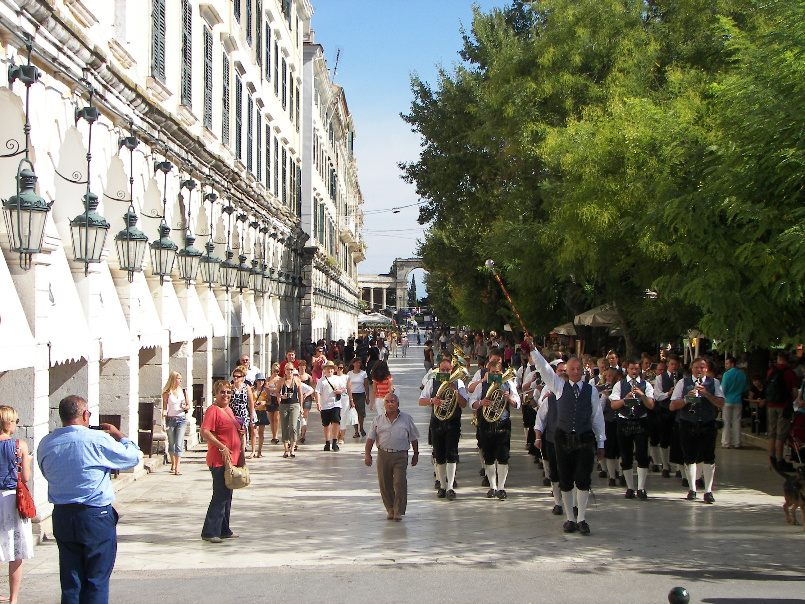 I am the author. Dr.K. 16:05, 6 September 2006 (UTC)